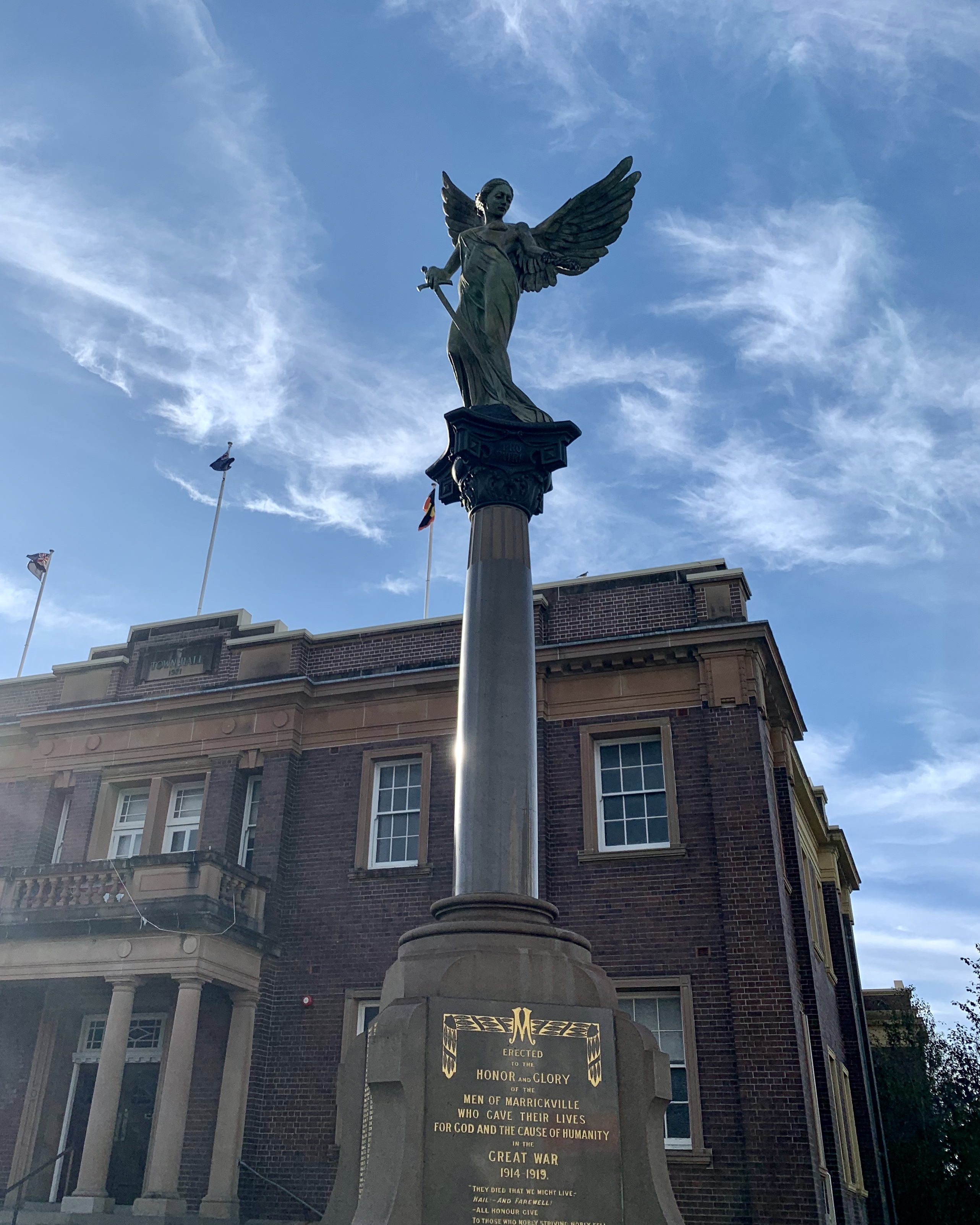 This image of the Winged Victory statue at Marrickville Town Hall shows the replica statue which replaced the original statue in 2015. The original was moved to the Australian War Memorial in Canberra to mark the Anzac Day Centenary. The statue of Nike, the Greek Goddess of Victory, was made to commemorate the local residents who lost their lives in the First World War.